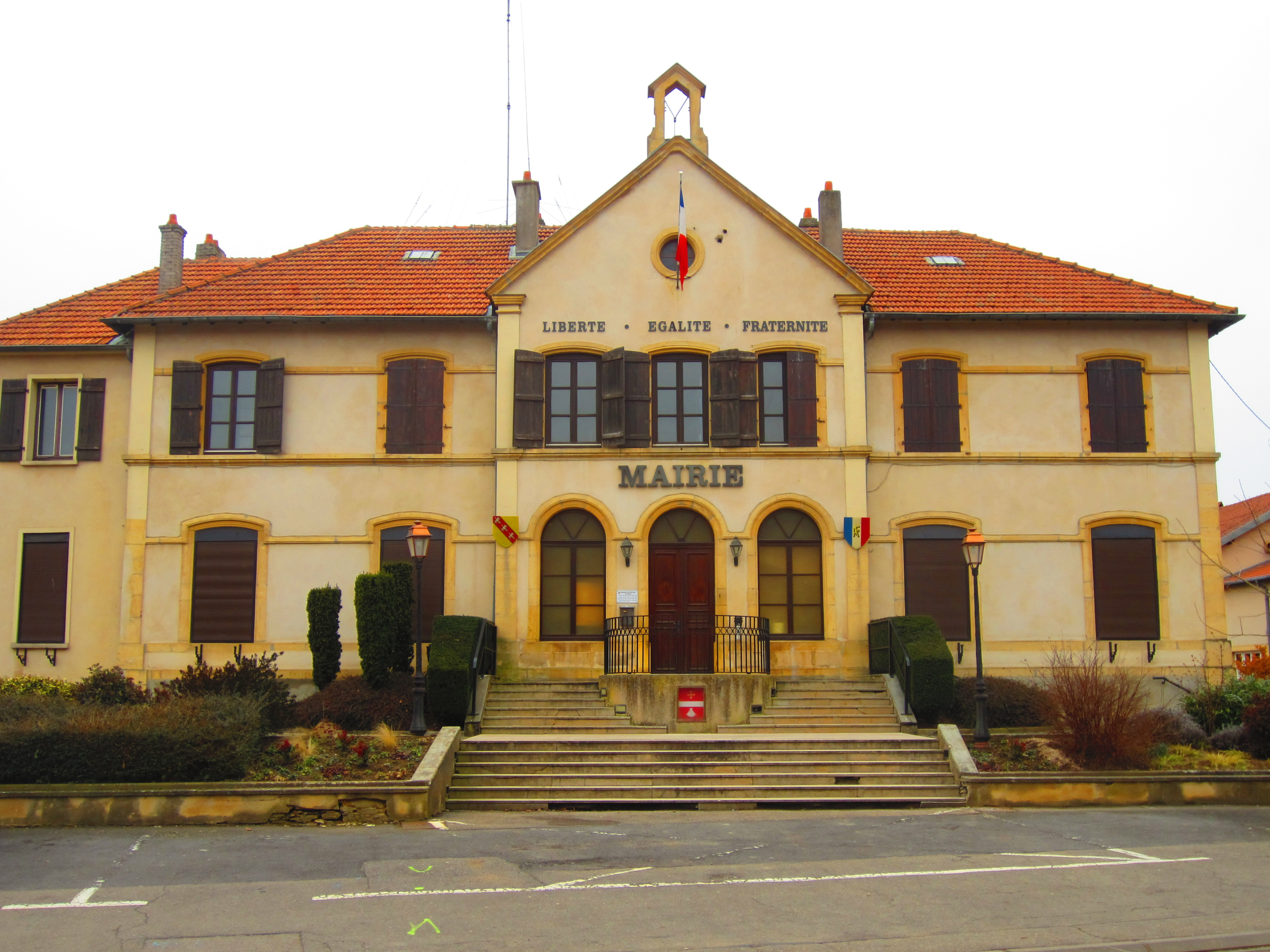 Augny town council